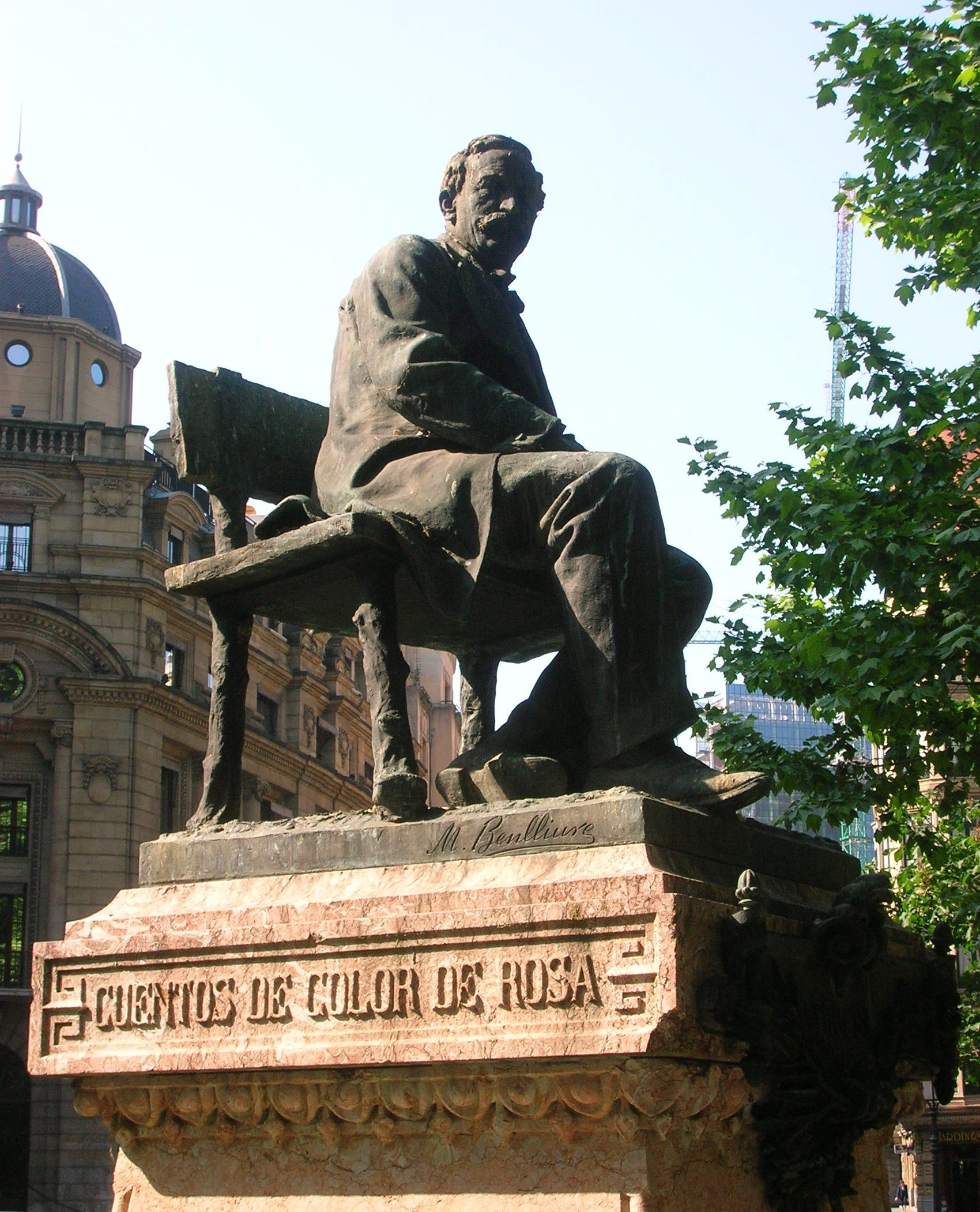 Monument to Antonio Trueba, sculpture by Mariano Benlliure, in Bilbao.